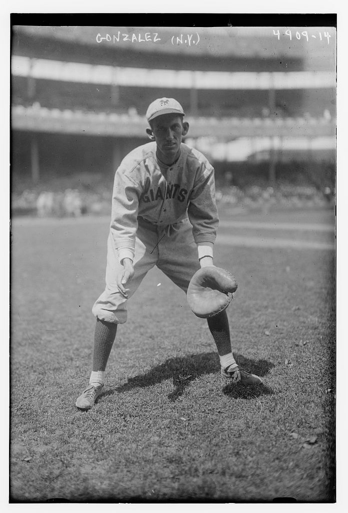 Photograph of Mike González, a Cuban baseball catcher who was playing for the New York Giants